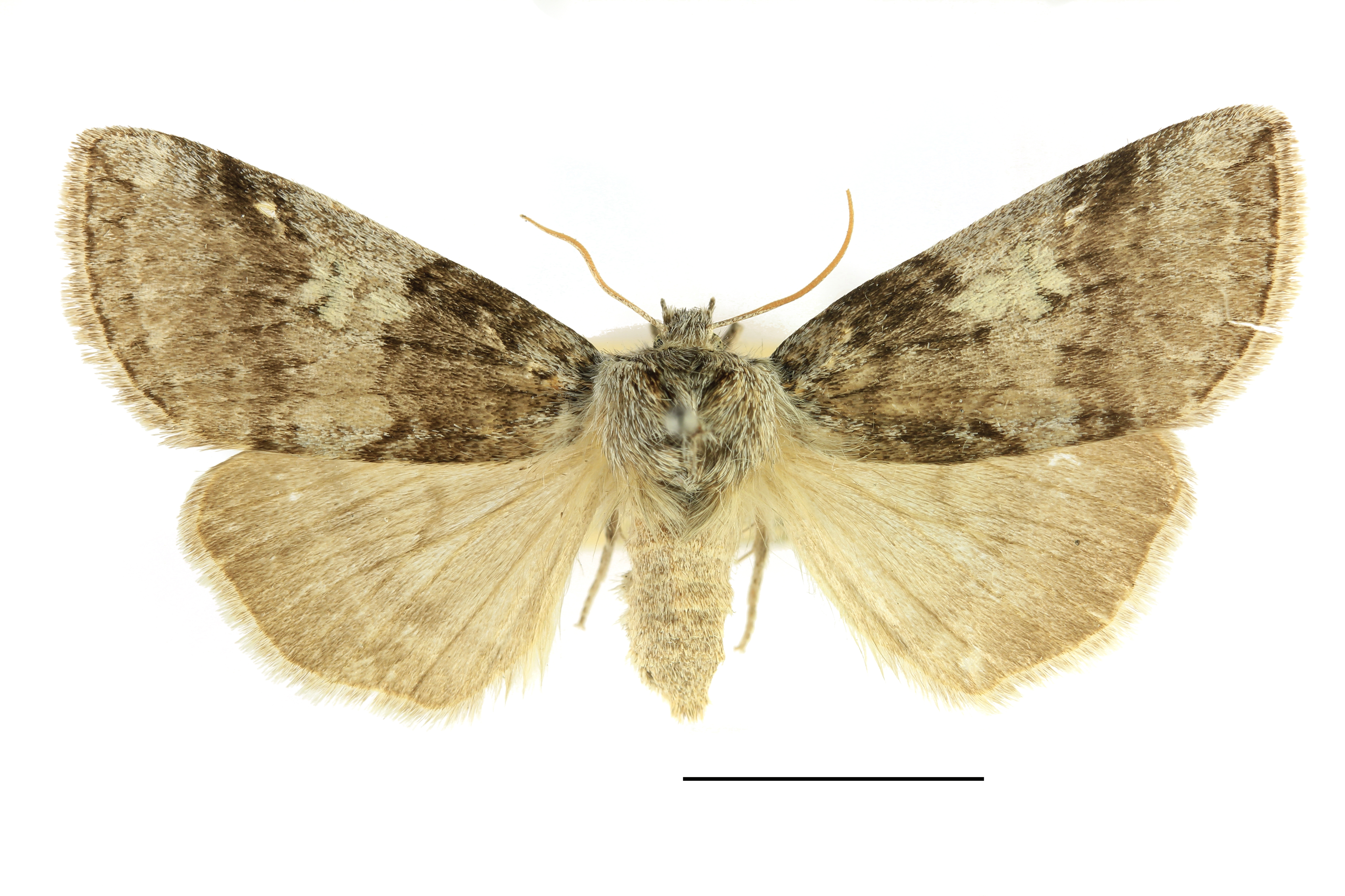 Achlya flavicornis, insect collections SLU, Uppsala